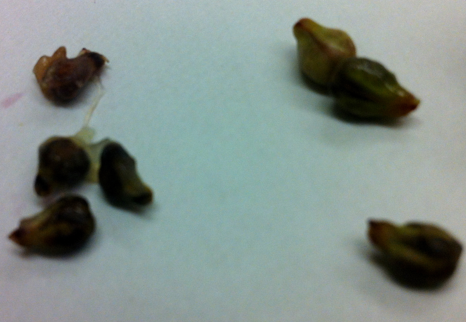 Grape seeds from Cabernet Sauvignon (left) and Grenache (right) berries